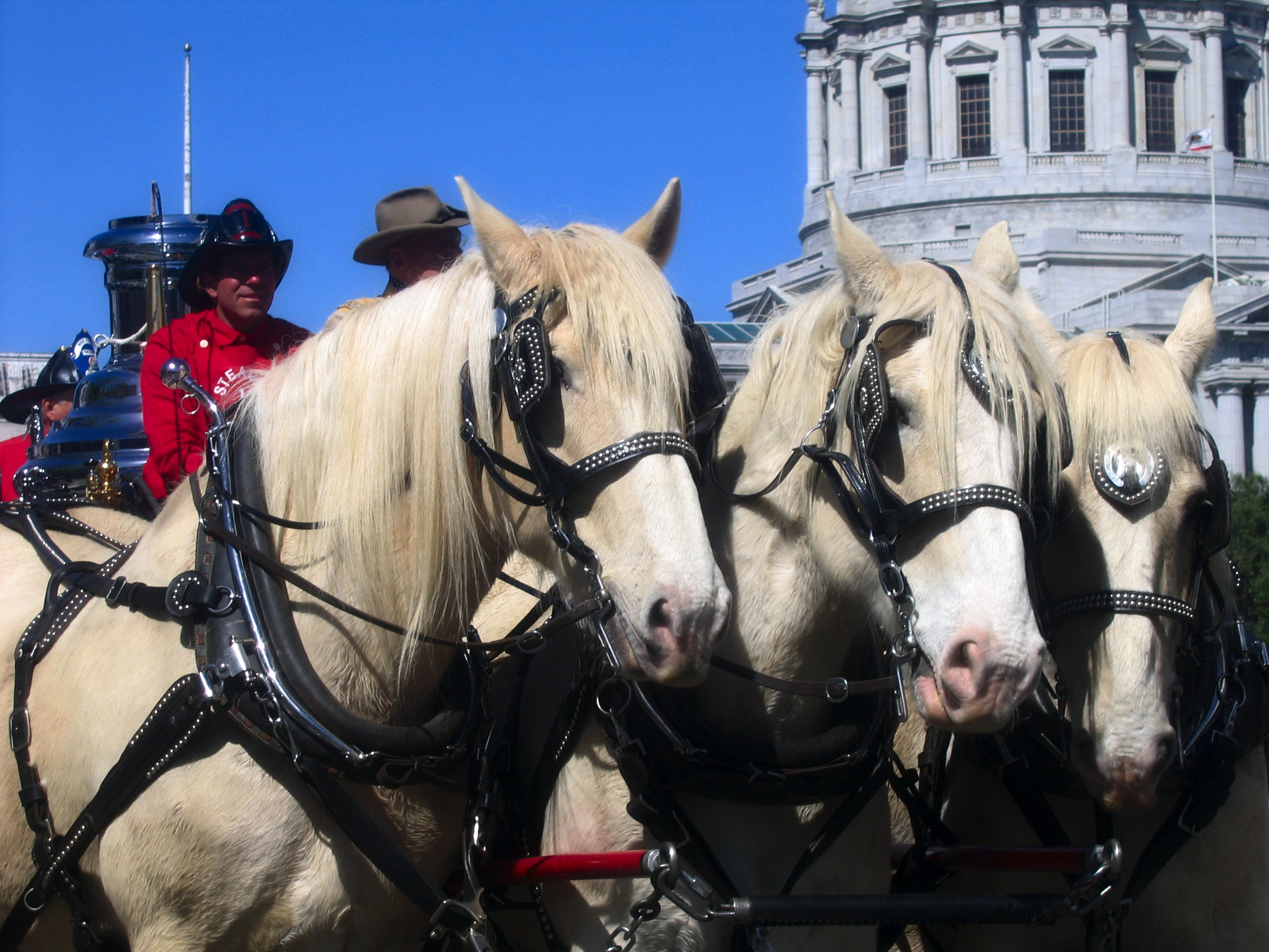 Antique horse-drawn fire truck in front of city hall at today's parade commemorating the 100-year anniversary of the 1906 Earthquake in San Francisco.